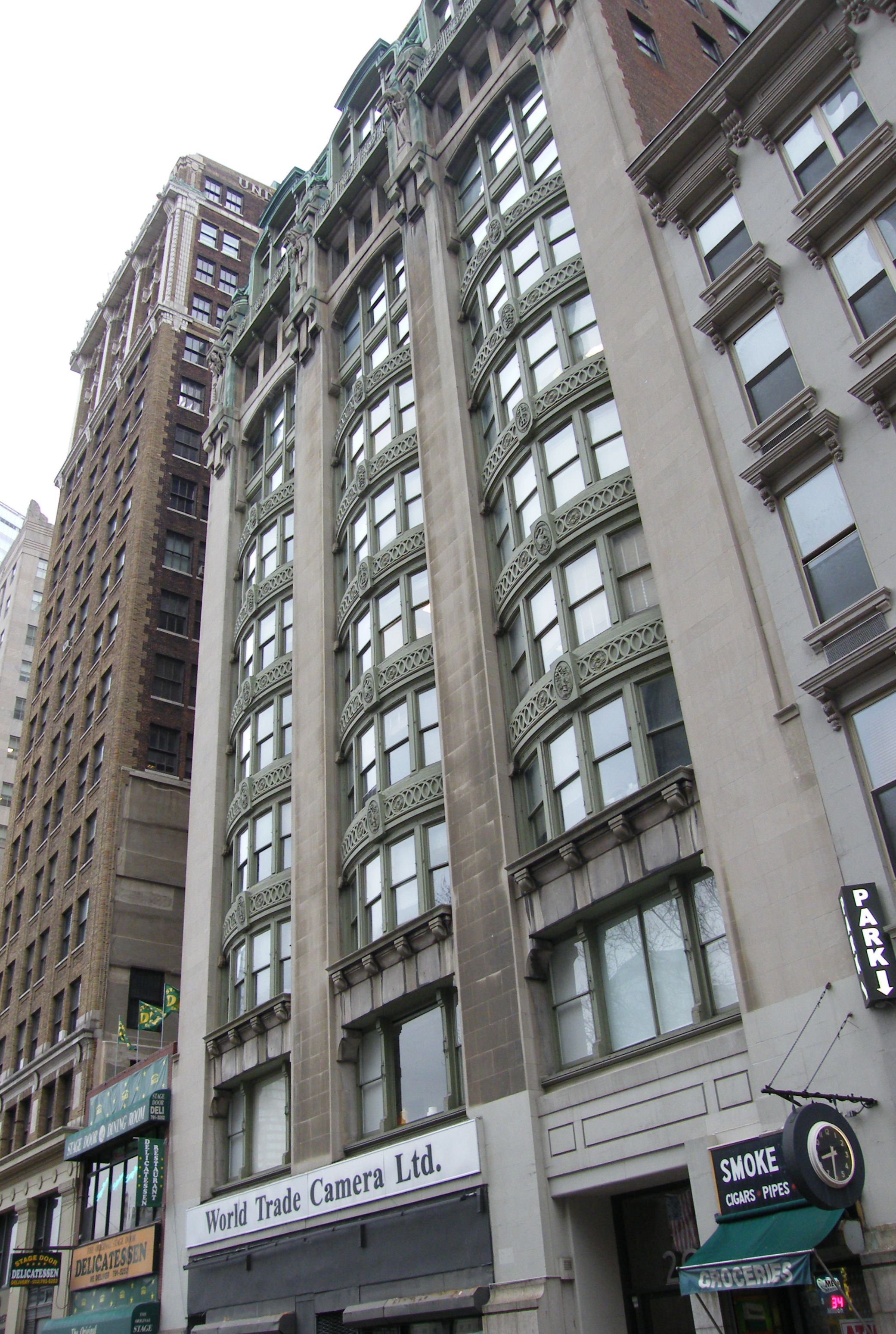 Former headquarters of New York Post at 20 Vesey Street on National Register of Historic Places in New York City